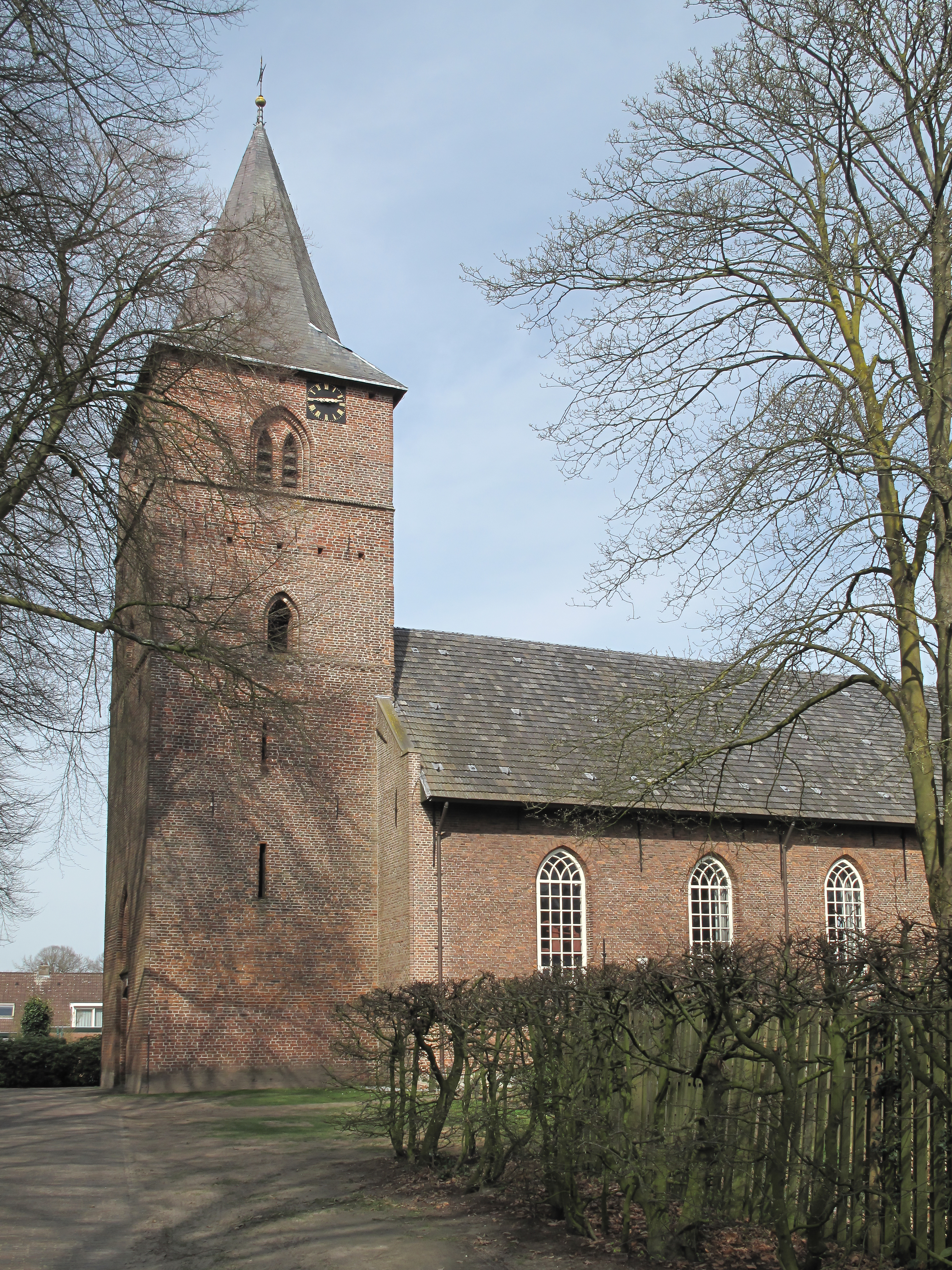 Dalen, church